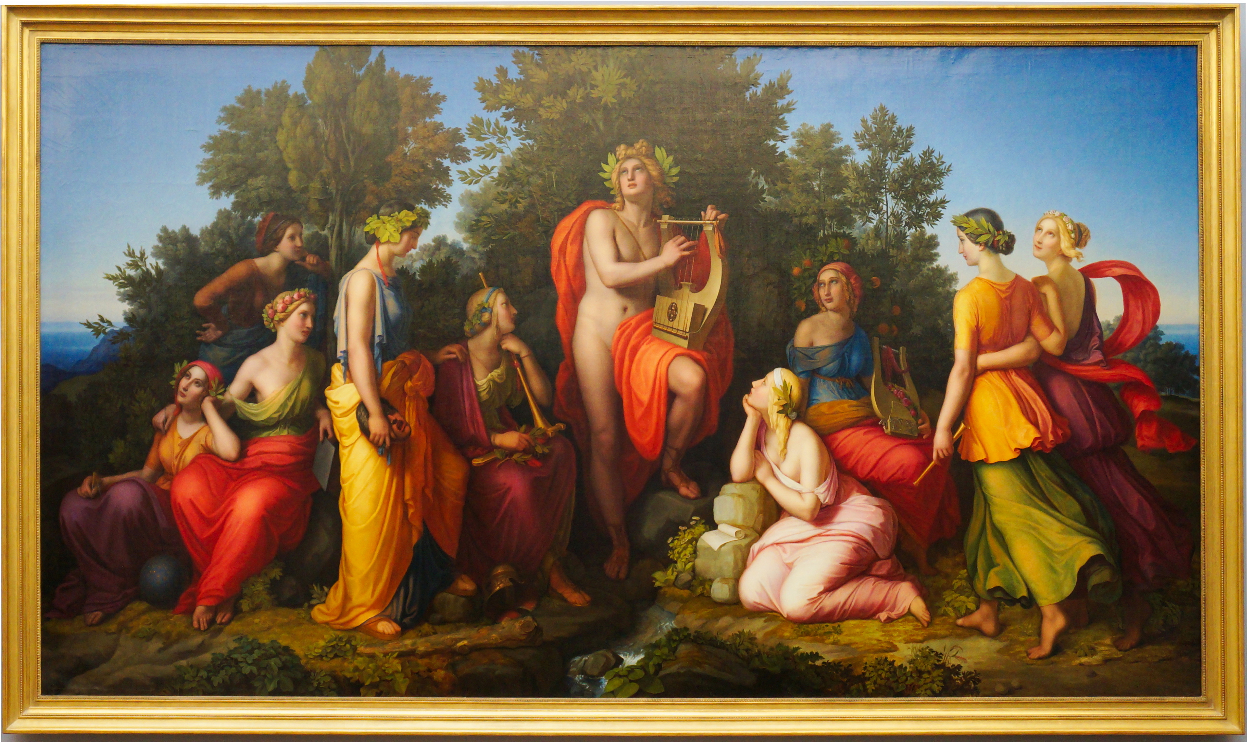 Apollo and the Muses